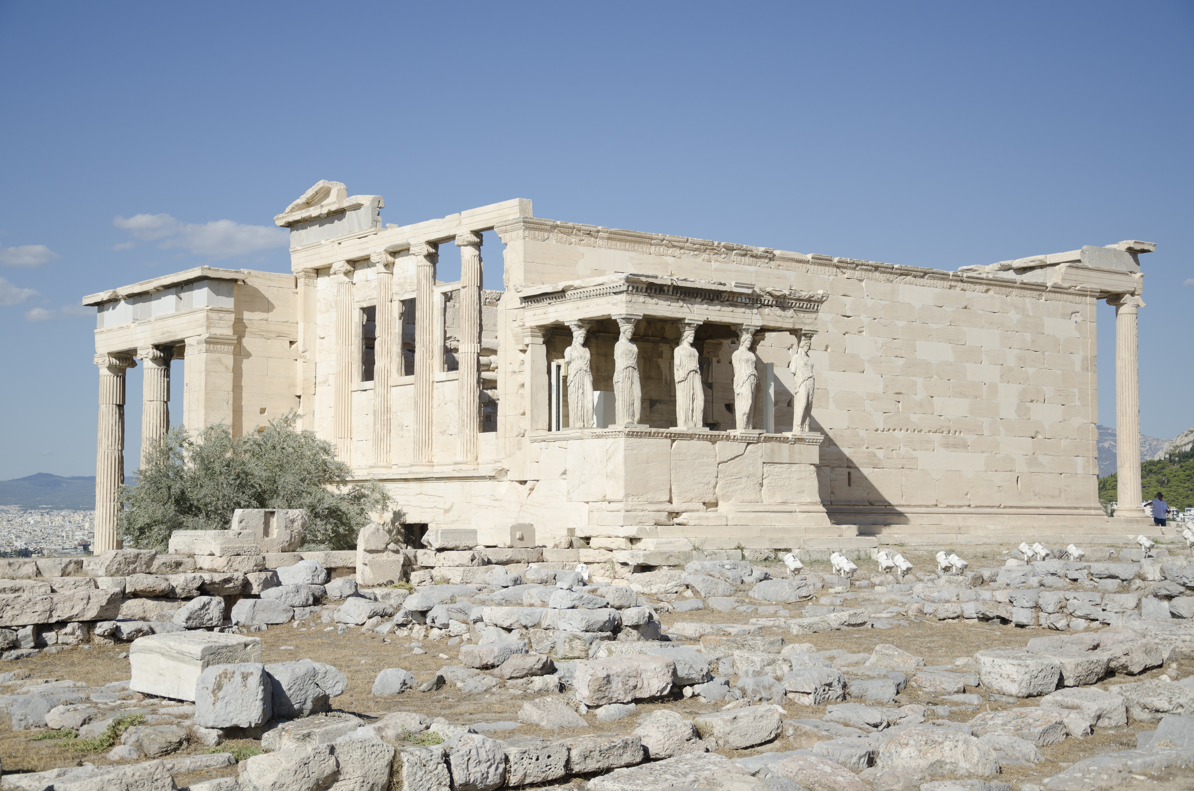 South-west view of the Erechteum in 2017.